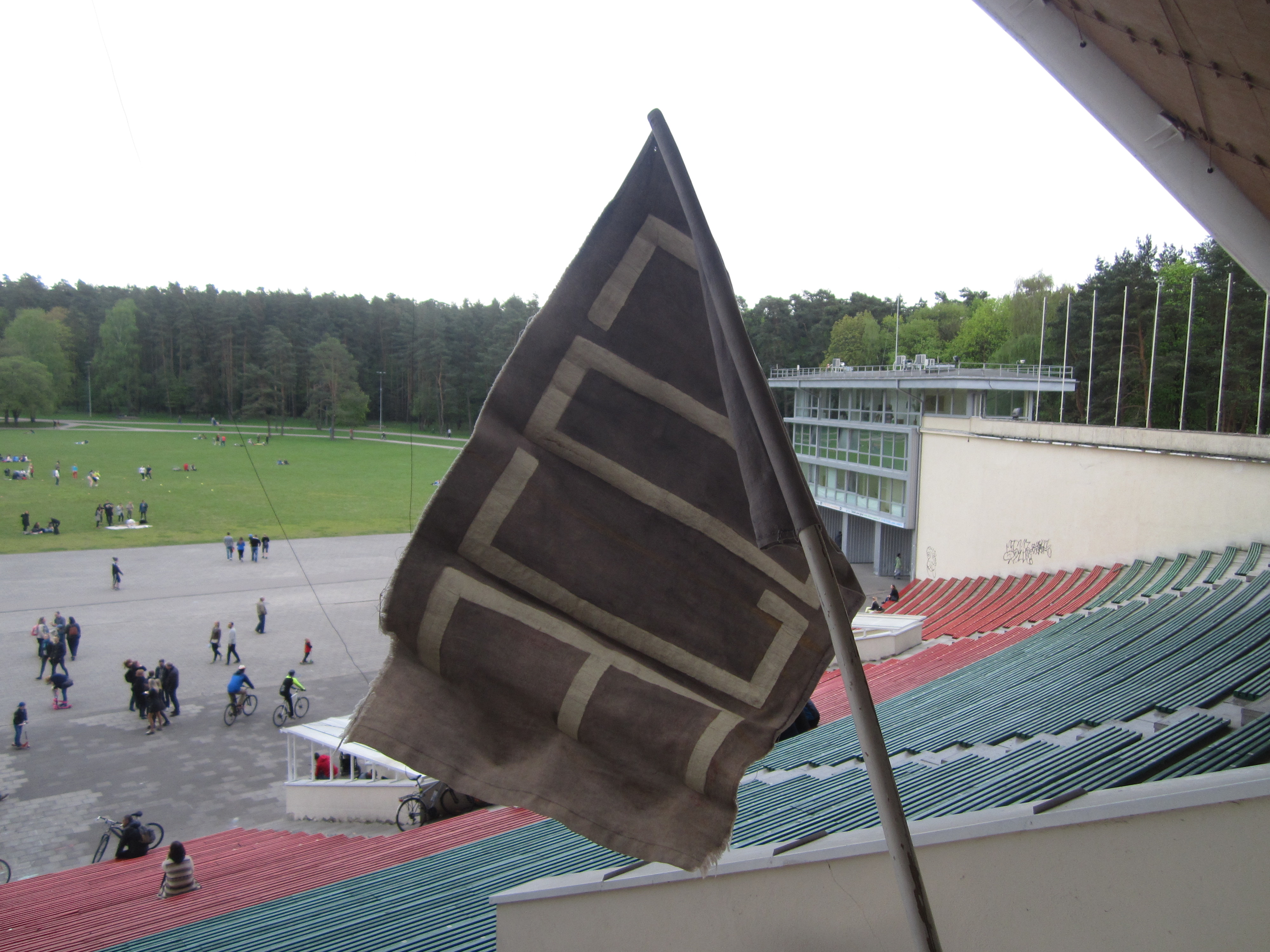 Foje flag, used in the farewell concert